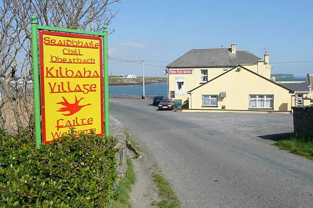 Kilbaha village - welcome, near to Kiltrellig, Bridge of Ross, Ross, Fodry and Cill Bheathach, Clare, Ireland. At first I thought it ought to say "welcome back" as this is the last village on the Loop Head peninsula and we are approaching from the west. But there is another lane to the head that bypasses Kilbaha so there might just be someone arriving from this direction who has not been to Kilbaha before. In front of the bay is one of two pubs in the village.